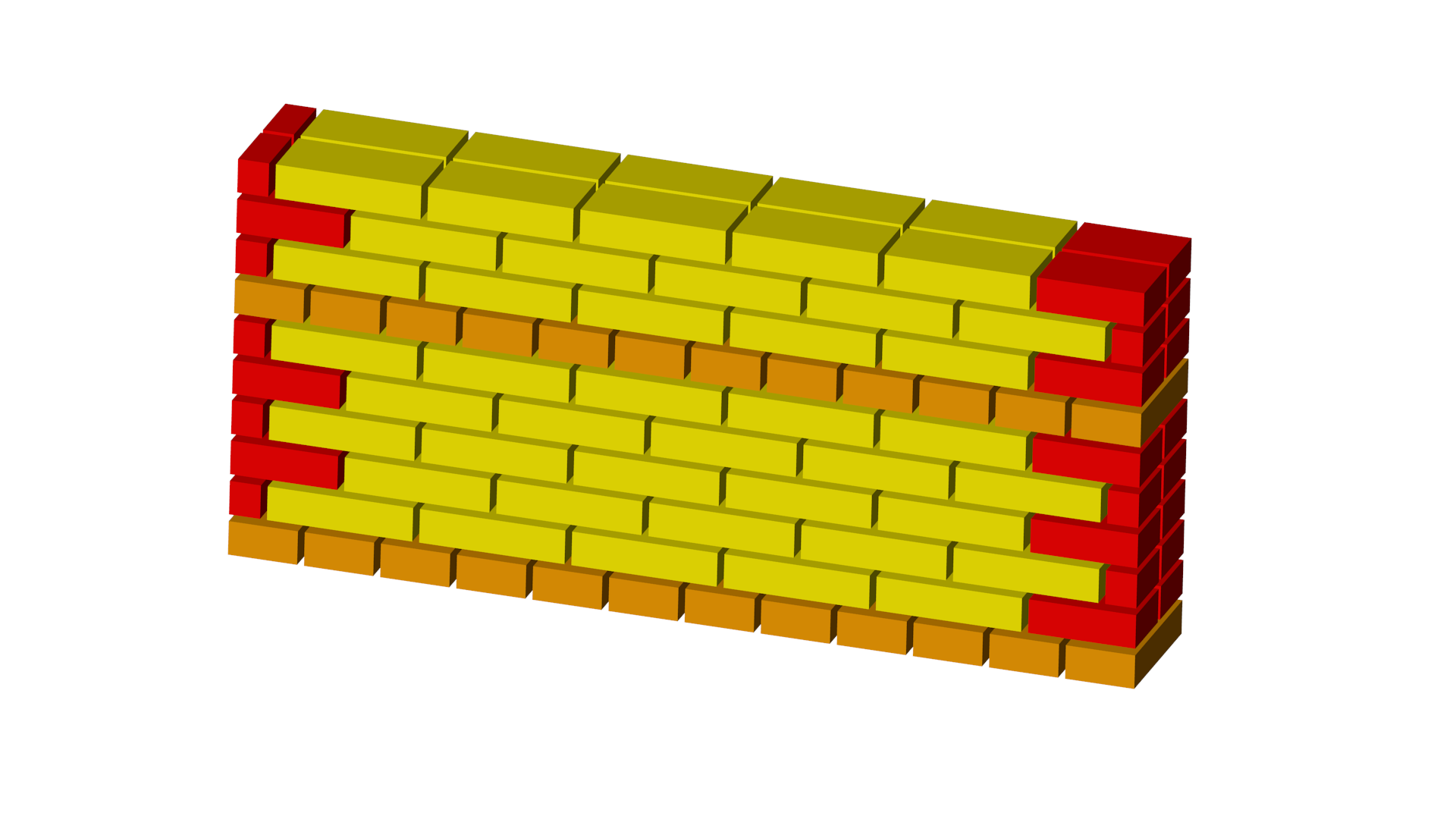 Common, American, or Scottish bond